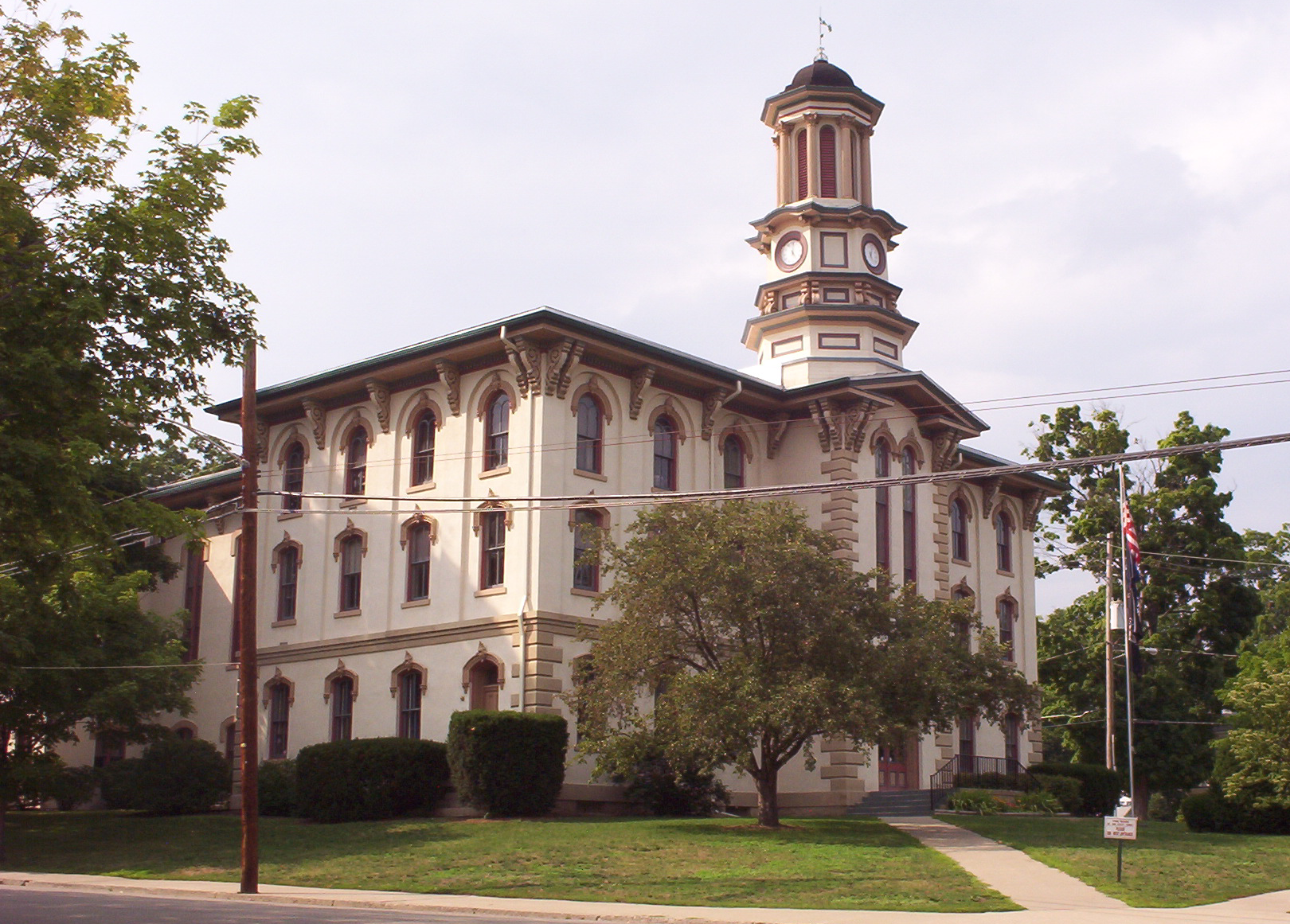 Wyoming County Courthouse This photograph was taken by Wikipedian Michael J in June 2007.